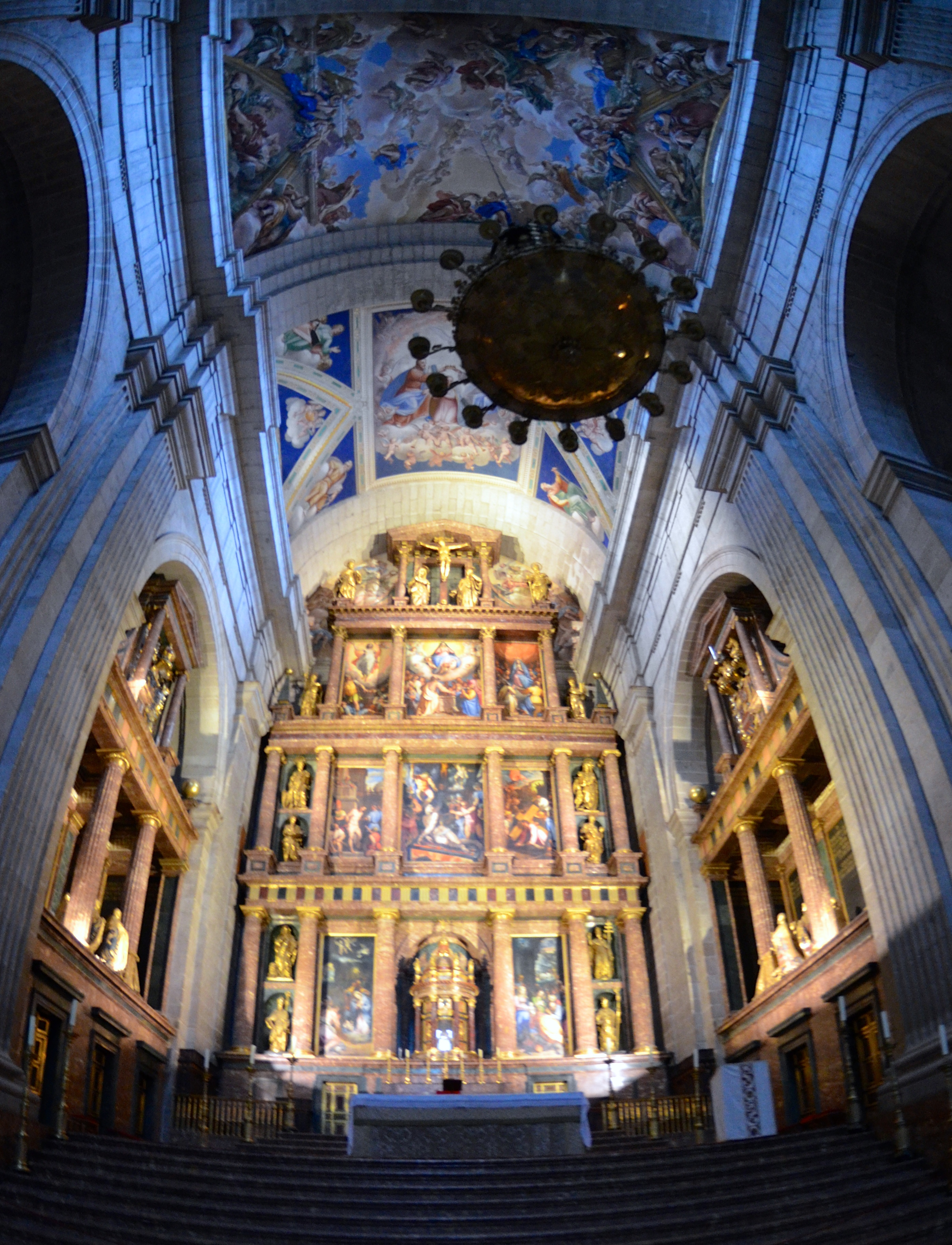 high altar of El Escorial's basilica, with its statuary and three-tiered reredos decorated with religious paintings commissioned by Philip II.